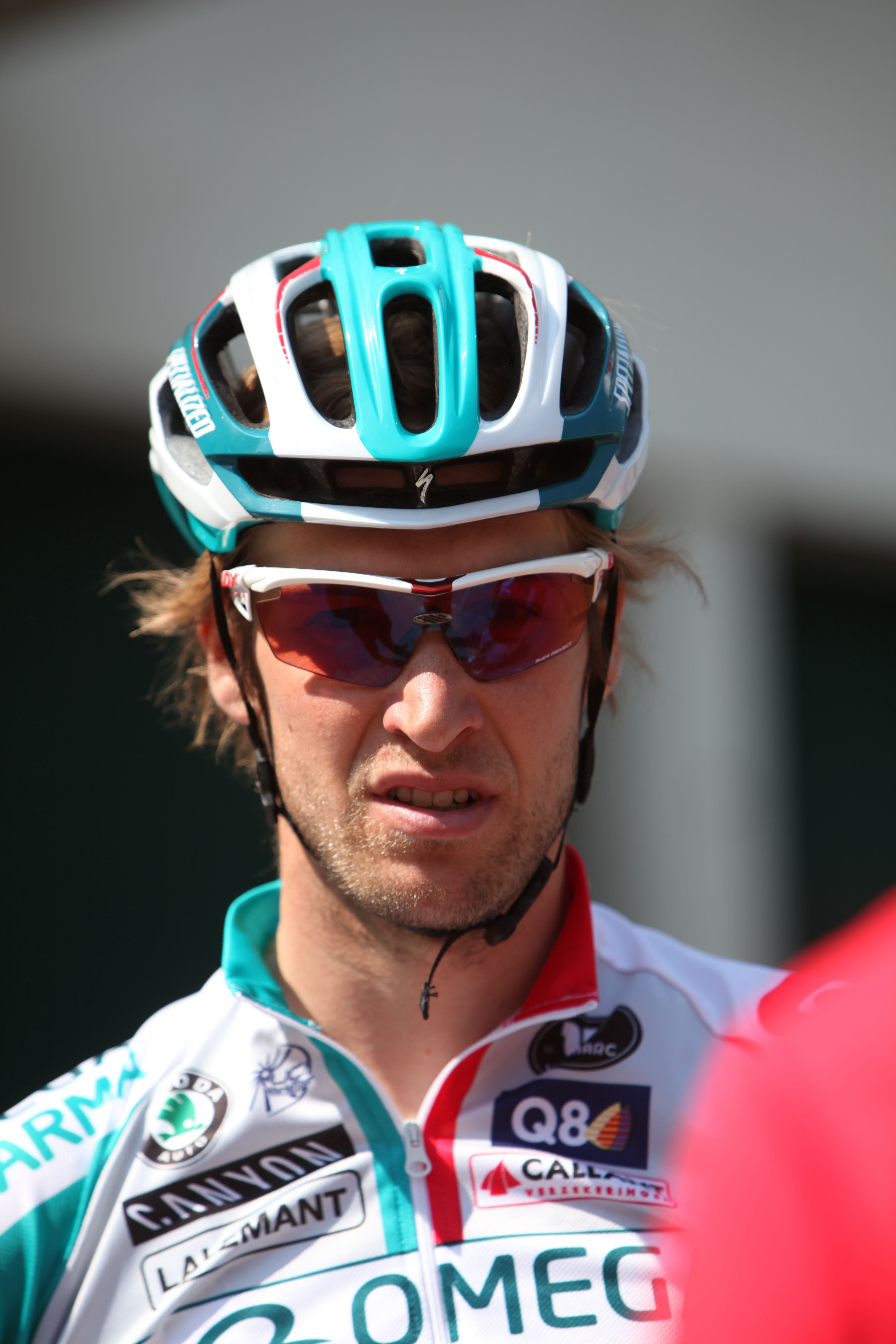 Jurgen van De Walle at the prologue of the Tour de Romandie 2011